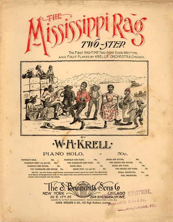 The Mississippi Rag, 1897